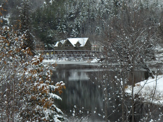 Iron foot-bridge over the York river, connecting to Millennium Park, in Bancroft, Ontario.